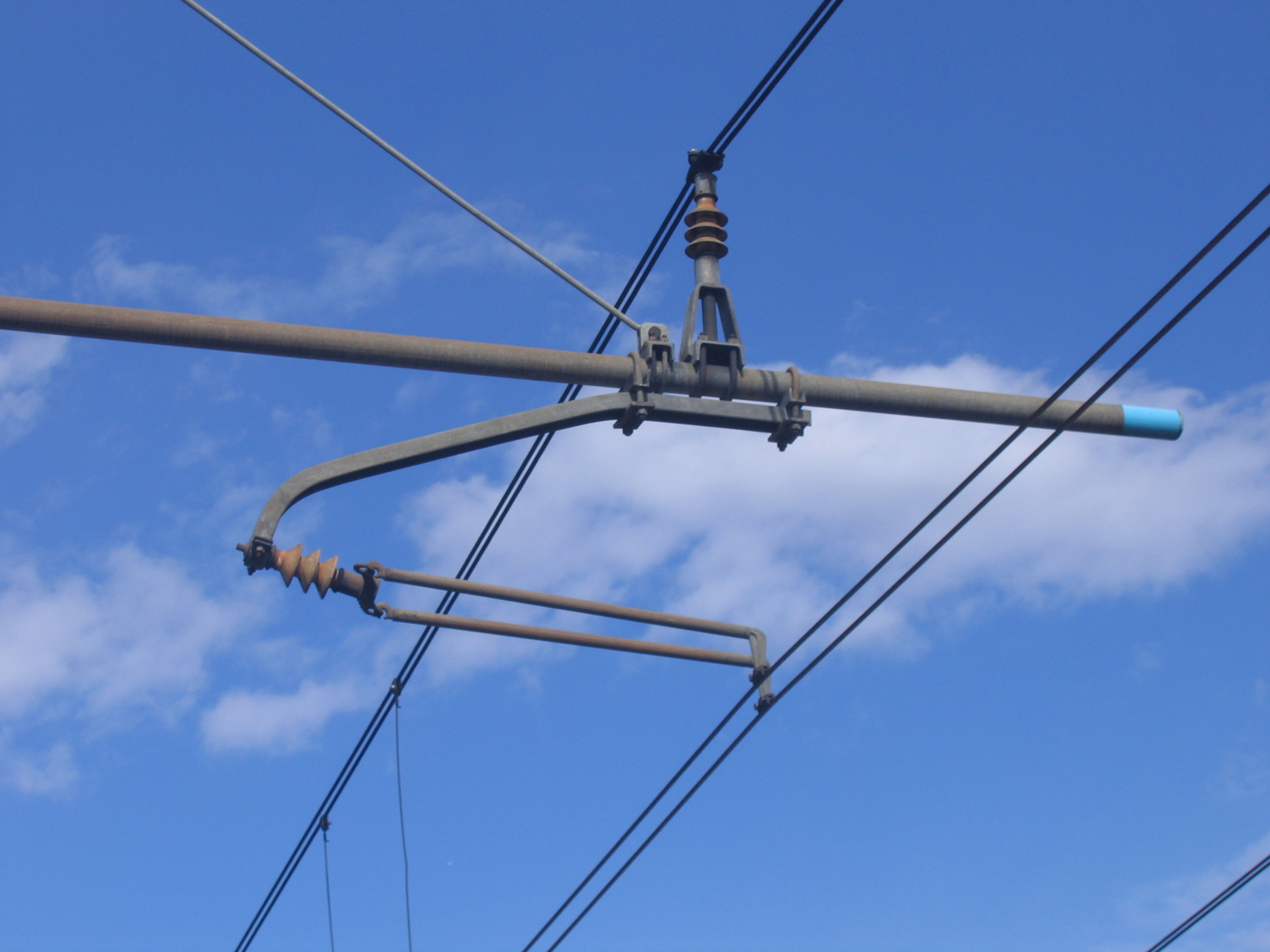 Support and insulation to a overhead contact installation for traction systems for 3,000 Volts (Italy).